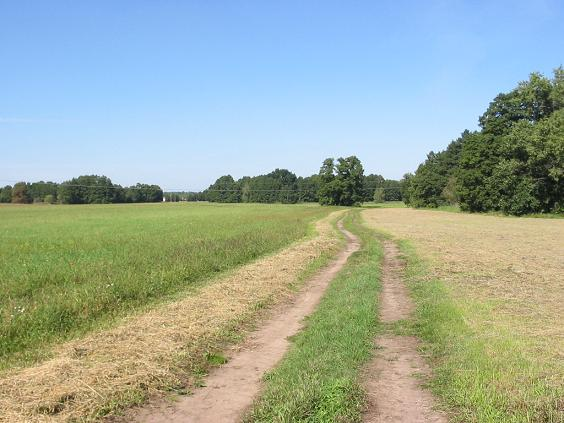 Landscape beside the nature reserve (german:Naturschutzgebiet) Zarth - a fenny forest, situated in the nature reserve (german:Naturpark) Nuthe Nieplitz at the border between the low Mountain rage Fläming and the glacial valley Baruther Urstromtal. It is part of the town Treuenbrietzen in the district Potsdam Mittelmark, state Brandenburg, Germany.